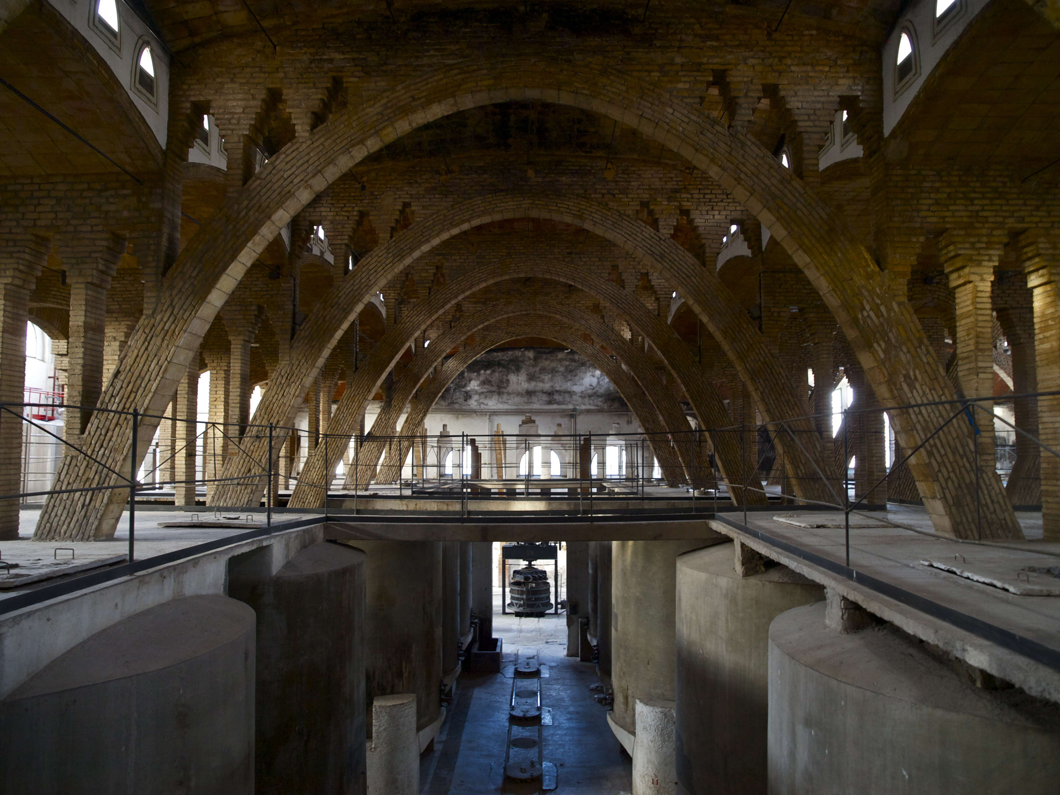 Celler Cooperatiu de Gandesa (Catalonia) Architect: Cesar Martinell